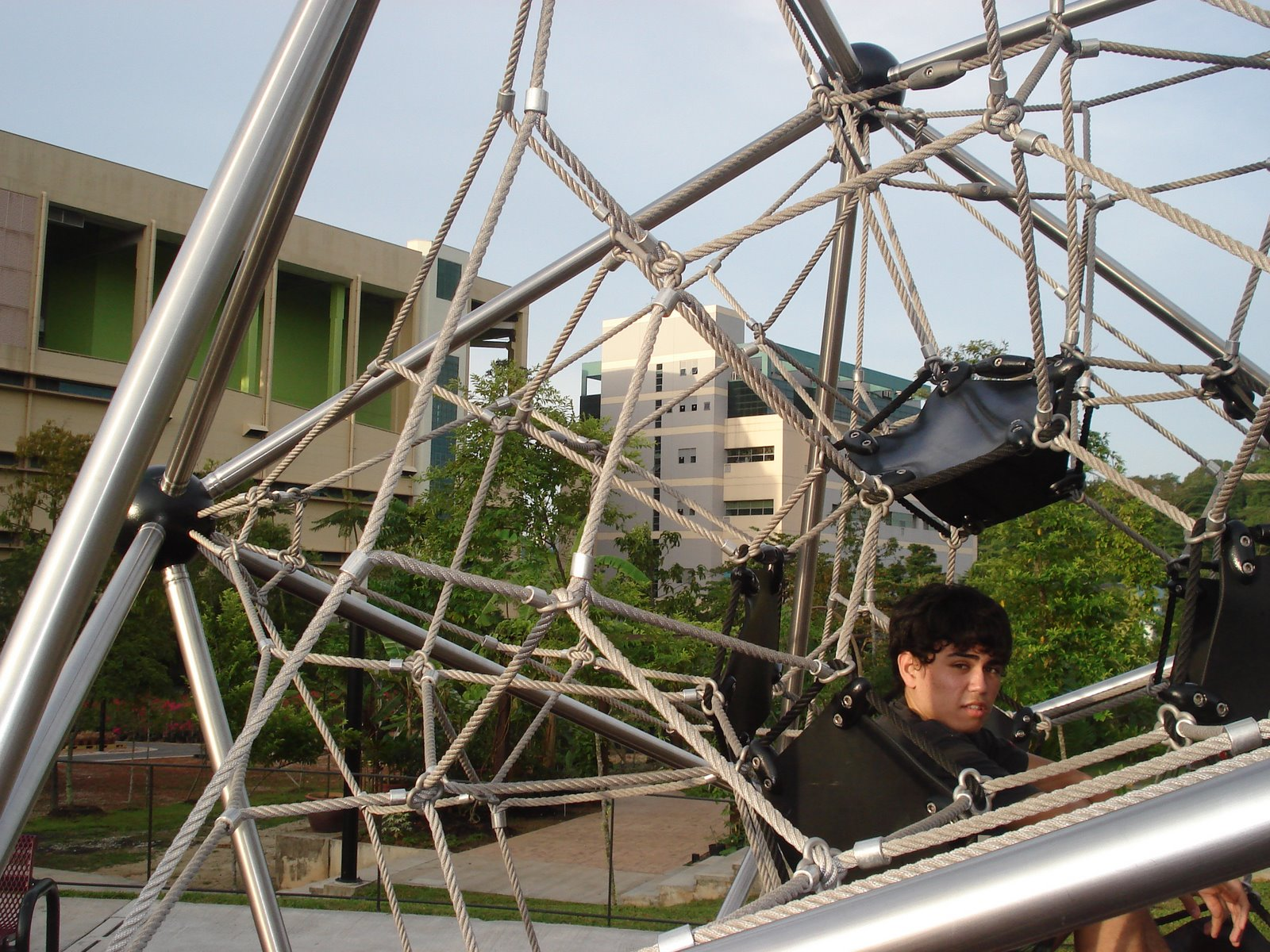 A play structure in HortPark, Singapore. January 2009